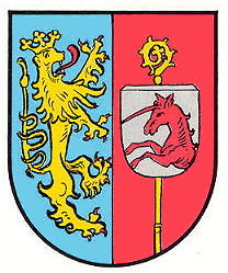 Coat of arms of Winterborn (Rheinland-Pfalz)